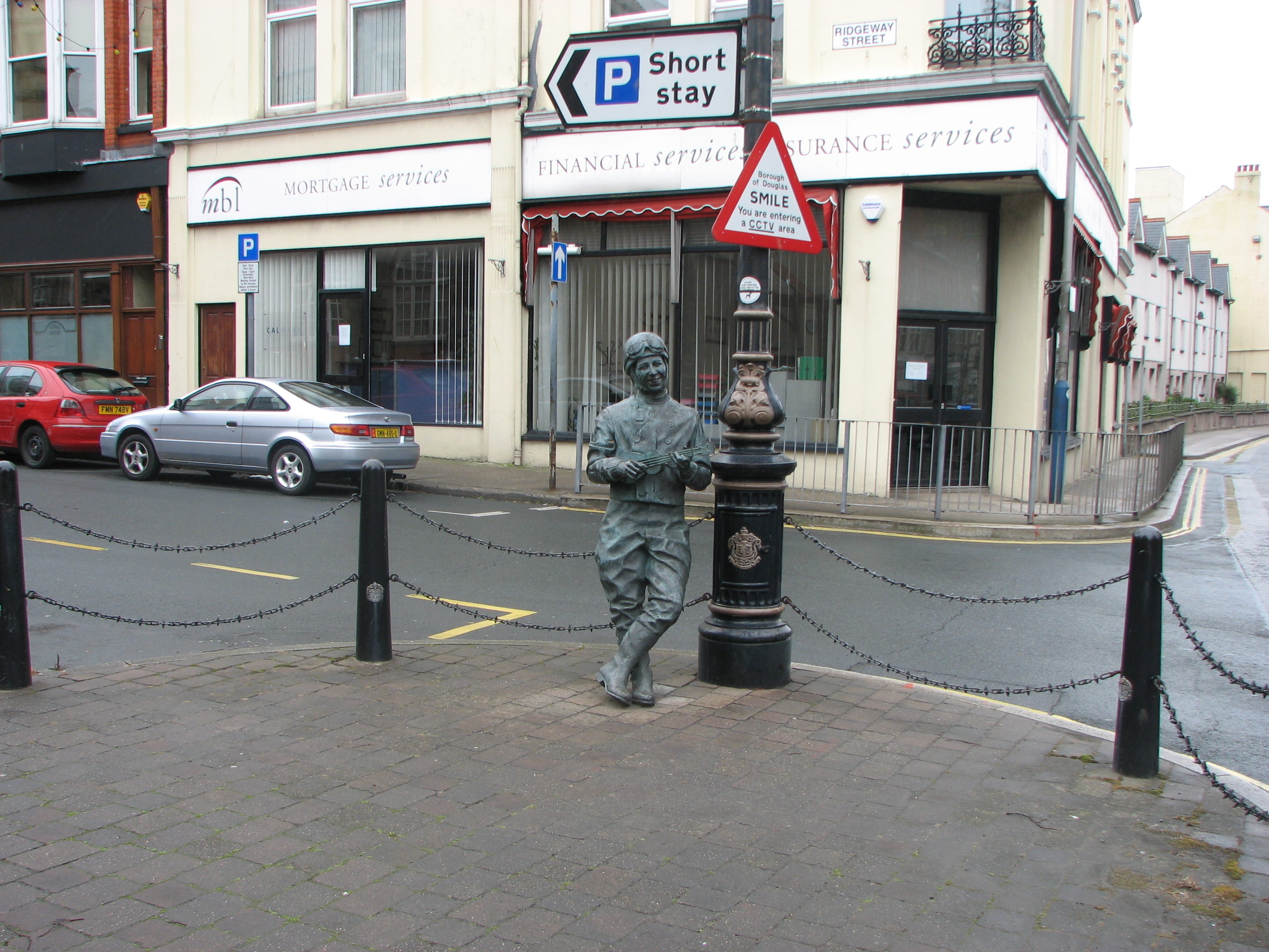 Statue of standing motor biker playing a musical instrument, on a street corner of city Douglas, Isle of Man